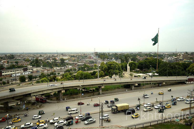 Peshawar